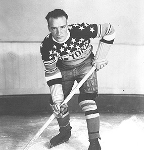 Hockey Hall of Famer Harold "Bullet Joe" Simpson during his playing days with the New York Americans